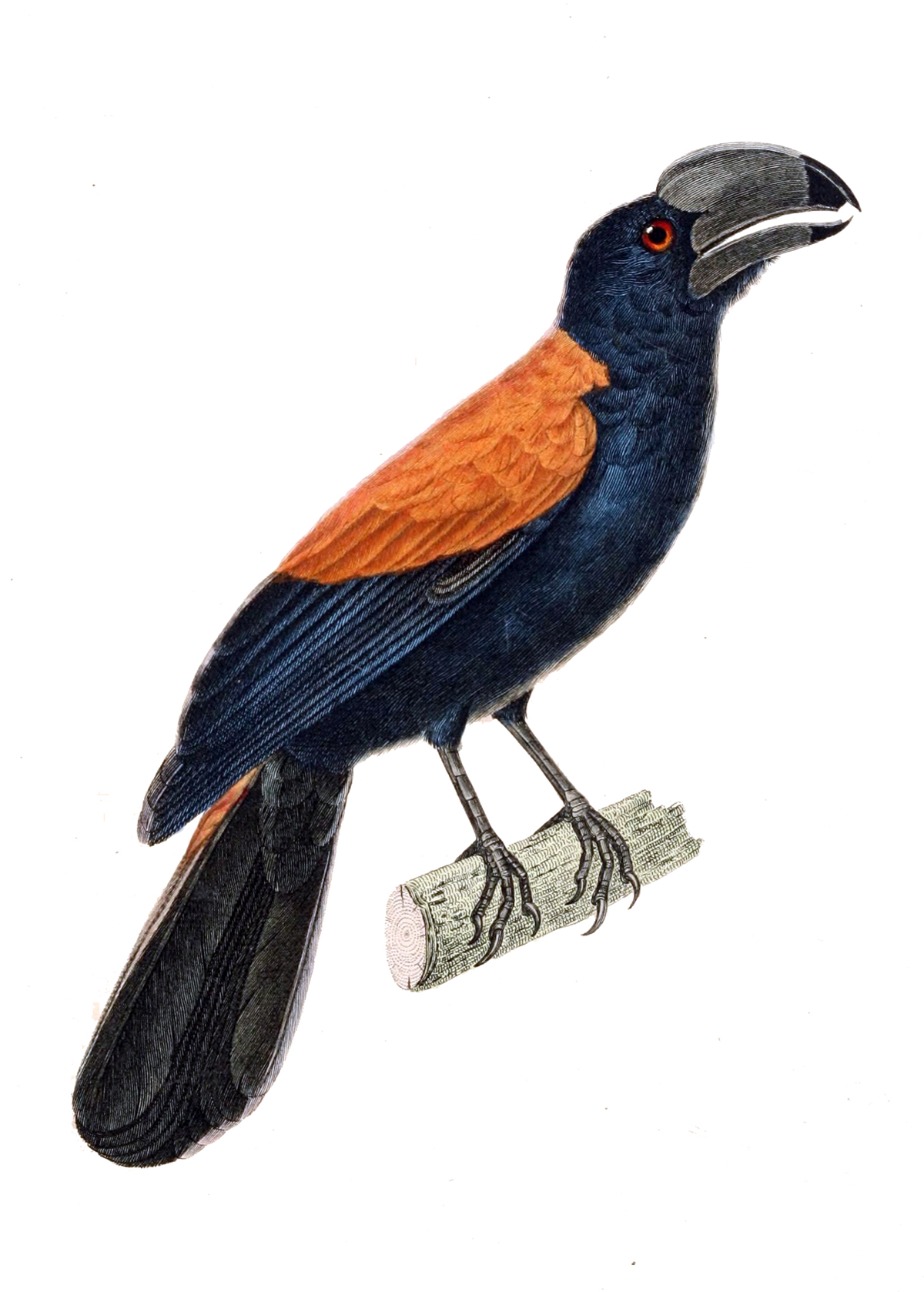 « Eurycère de Prévost, Euryceros Prevostii » = Euryceros prevostii (Helmet Vanga) - adult male